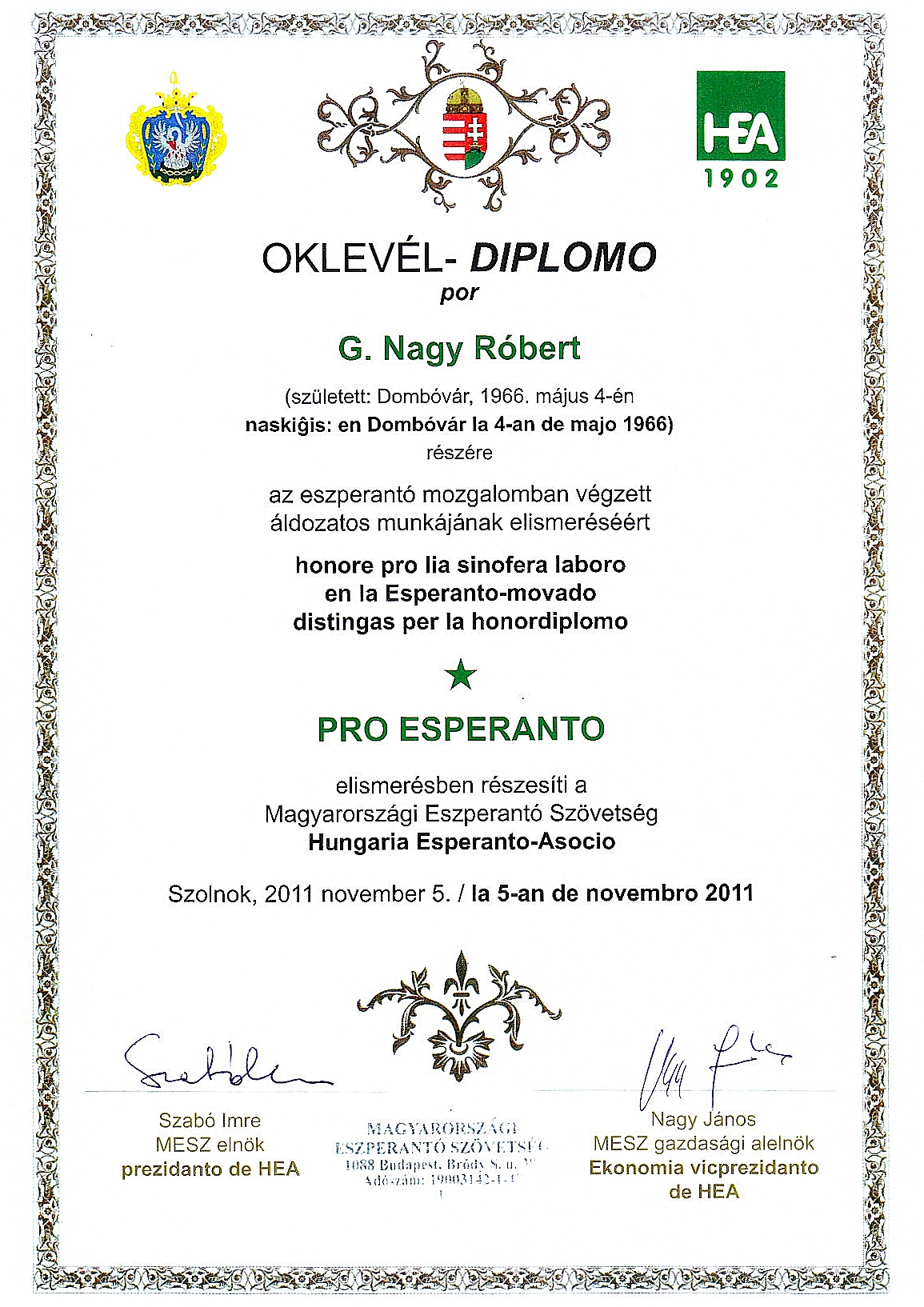 Graduate work in Esperanto